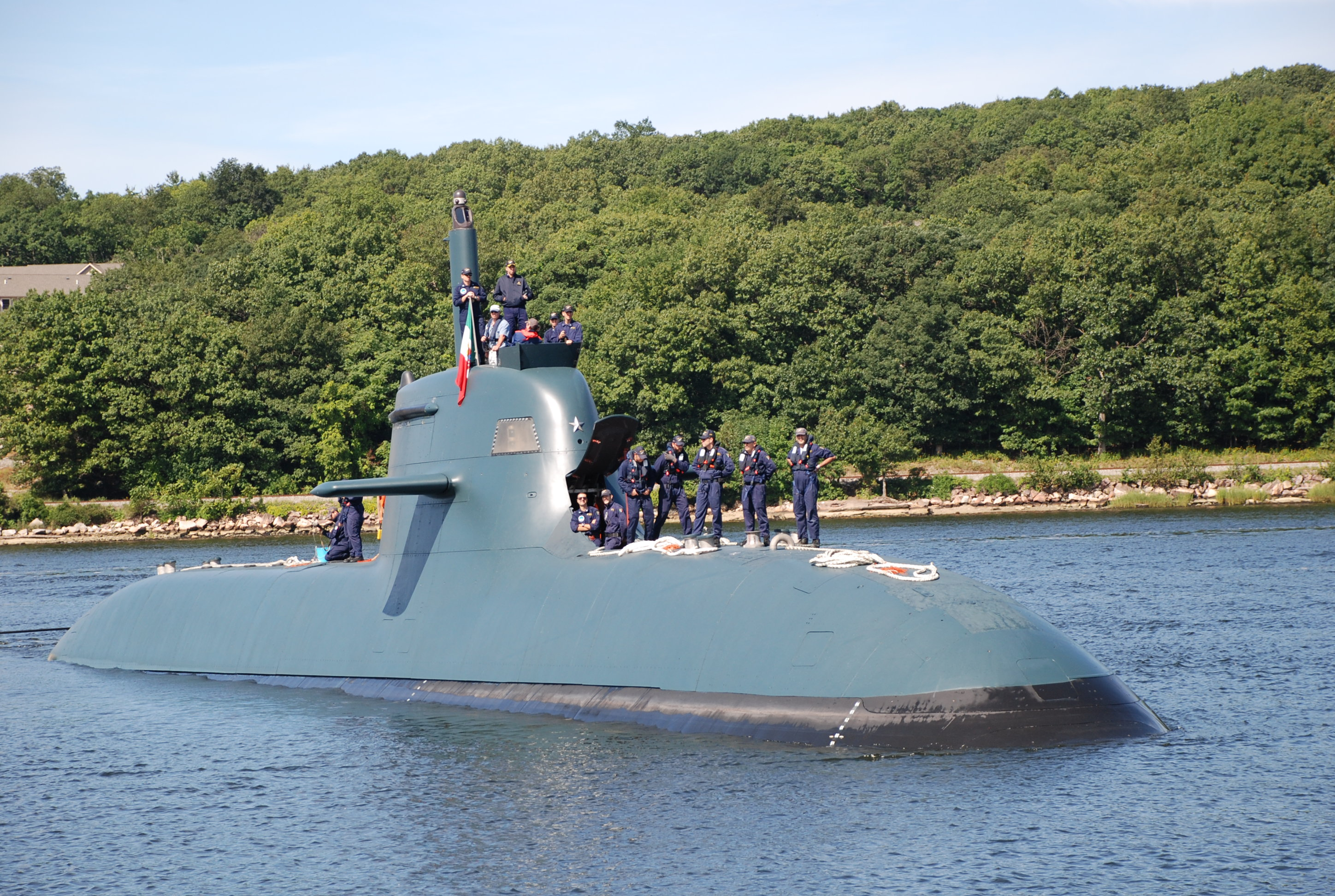 090827-N-3090M-248 GROTON, Conn. (Aug. 27, 2009) The Italian Todaro-class submarine IS Scire (S 527) arrives at Naval Submarine Base New London for a port visit. Scire is on deployment and is preparing to participate in a Joint Task Force Exercise with the Harry S. Truman Strike Group.